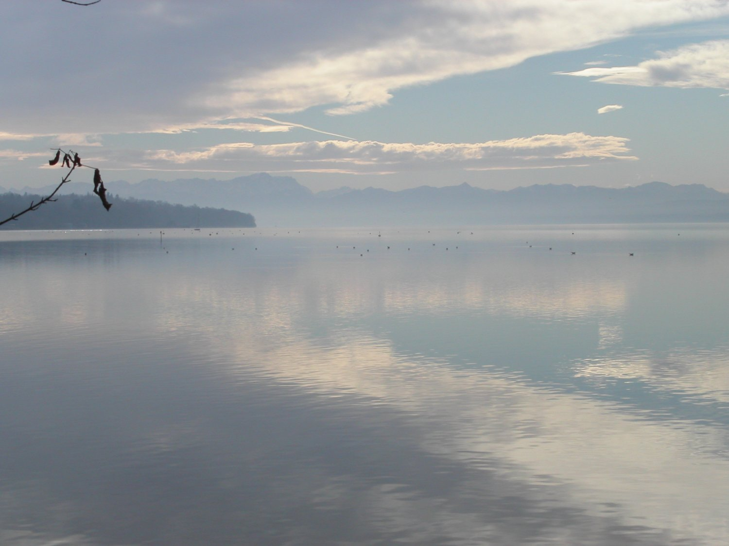 Lake Ammer